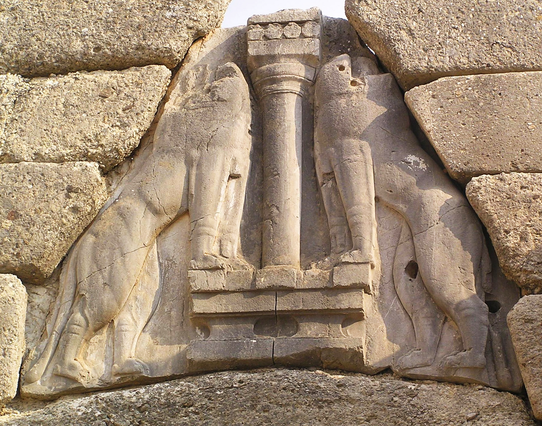 Lions Gate detail in Mycenae.